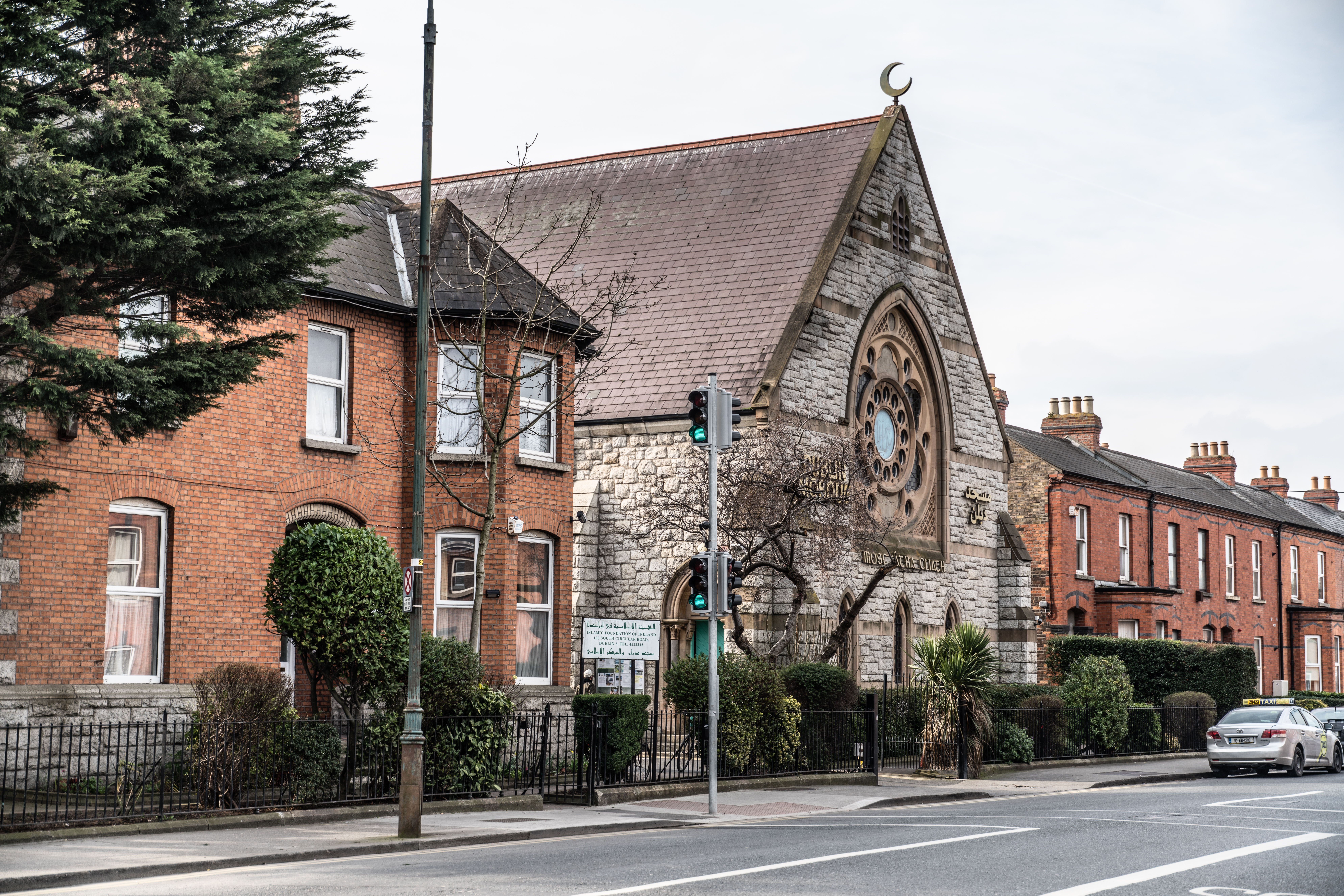 Dublin Mosque is a mosque on the South Circular Road, Dublin in Ireland. It is the headquarters of the Islamic Foundation of Ireland. The Donore Presbyterian Church was constructed in the 1860s in the style of a 13th-century English church. In 1983 the building on the South Circular Road was bought by the Islamic Foundation of Ireland and converted into a mosque. Originally constructed for a congregation of Presbyterians who were based next to the Guinness Brewery and accepted a buy-out on their property. They chose the name Donore after the nearby Donore Castle which no longer exists.